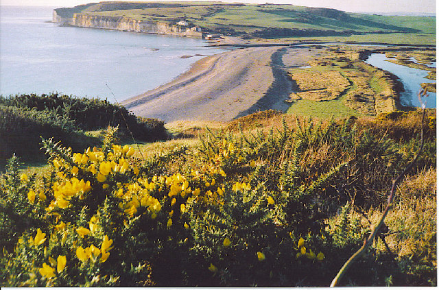 Cuckmere Haven from Cliff End. Taken from the end of the Seven Sisters, looking west over Cuckmere Haven to Seaford Head. The Haven has a distinctive shingle bar through which the meandering Cuckmere reaches the sea.